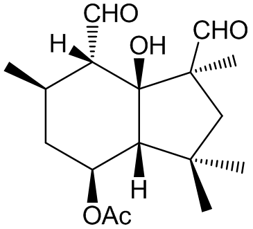 Structure of Botrydial